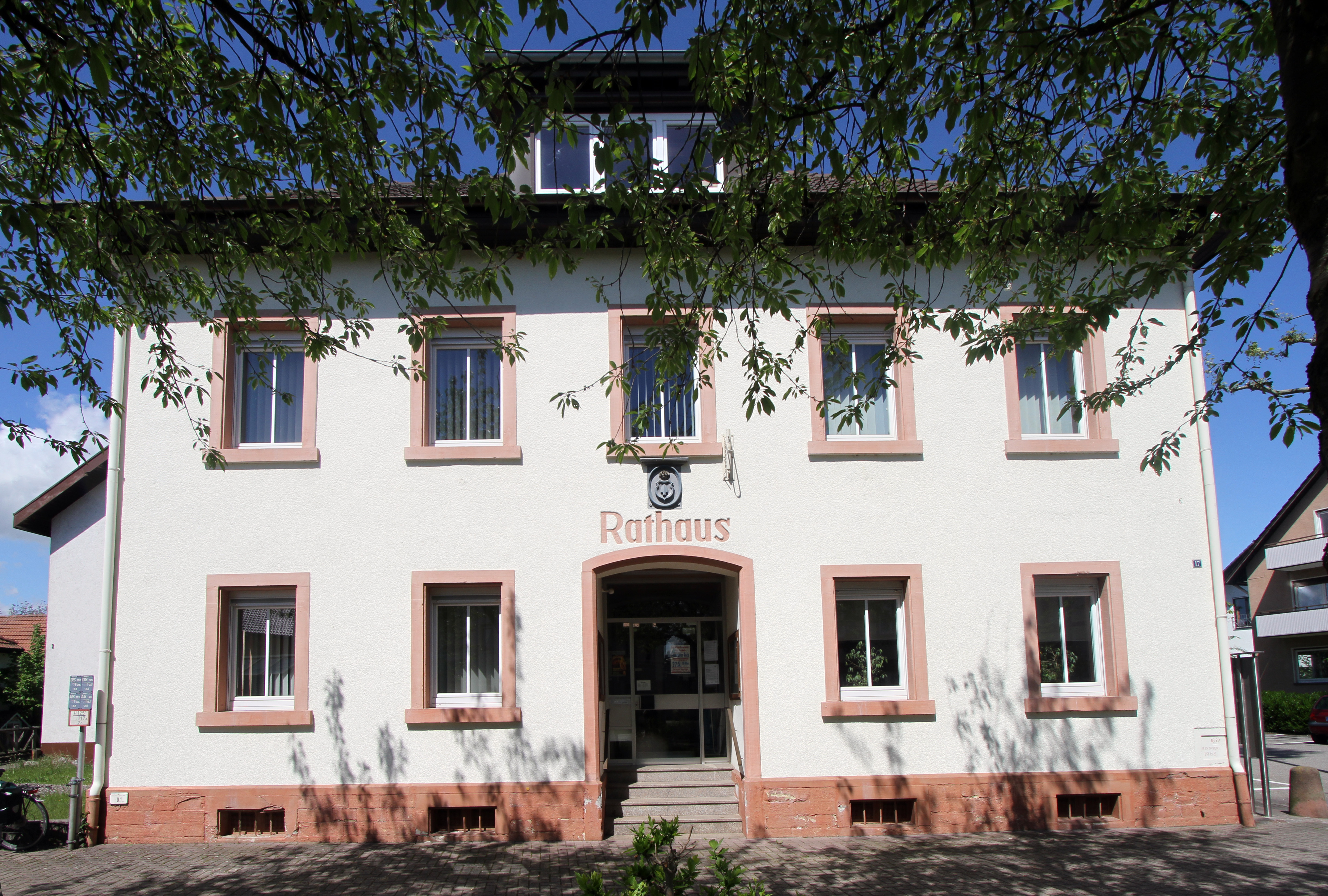 Town Hall in Bühl-Vimbuch.